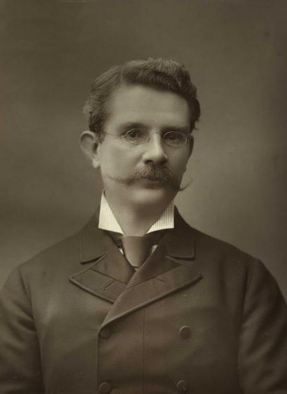 Portrait of William Black (1841-1898), Scottish novelist